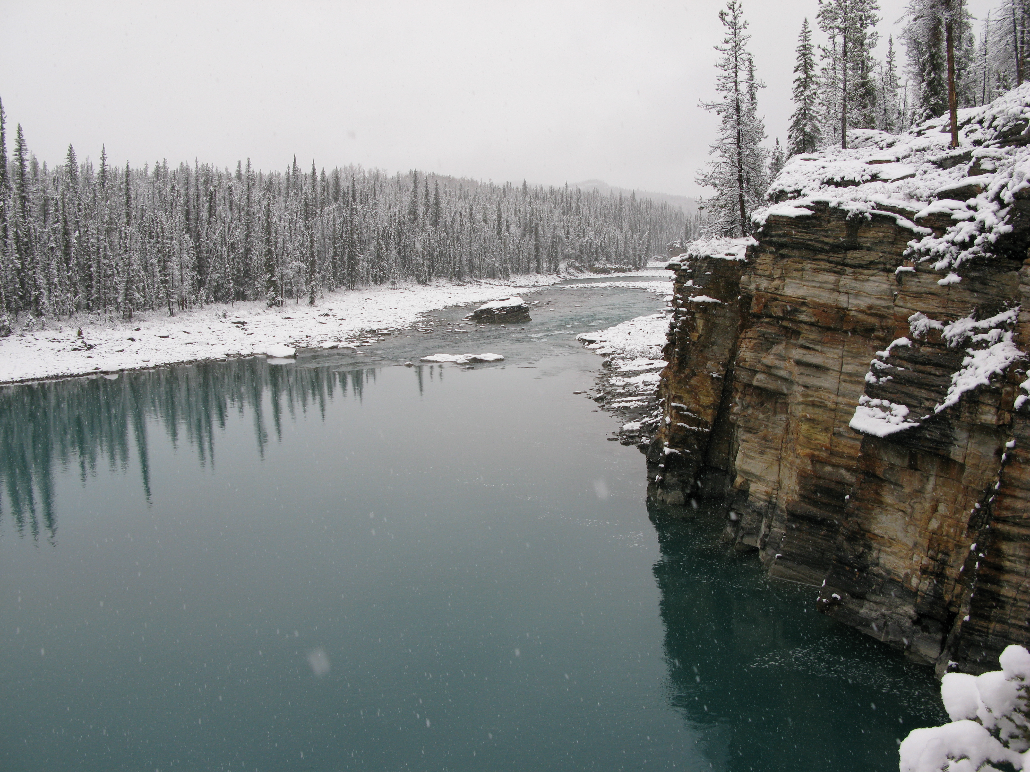 Athabasca River, Jasper National Park, Alberta, Canada